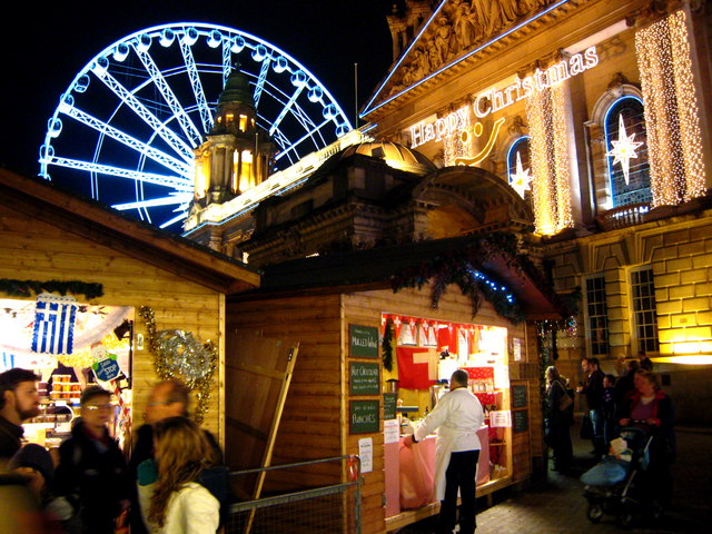 Christmas Market in Belfast [2] Another view of the Christmas Market - see also 633555